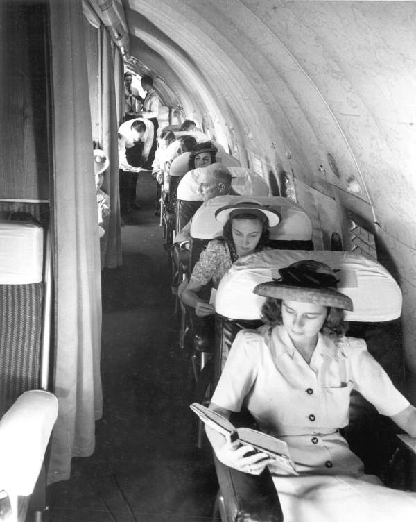 Local call number: Rc15258 Title: [Passengers on a Pan Am Boeing 307] Publication info: Between 1940 and 1947 Physical descrip: 1 photoprint: b&w; 10 x 8 in. Series Title: (Reference collection) General Note: The first of Pan American World Airways’ four-motored airliners with sleeping compartments was the Boeing 307, which featured another innovation: the pressurized cabin. Built for added comfort, the clipper was equipped to carry 33 passengers in day flights and 25 at night. Full course meals were served, and dressing rooms were smartly decorated. The cockpits were spacious and outfitted with the most modern equipment befitting the first of the high altitude passenger airliners in the world. Powered by four 1100 horsepower Wright Cyclone engines, the Boeing 307 had a wingspan of 107 feet, a length of 74 feet, an overall height of 20 feet, and a gross weight of 45,000 pounds. Repository: State Library and Archives of Florida, 500 S. Bronough St., Tallahassee, FL 32399-0250 USA. Contact: 850.245.6700. Persistent URL